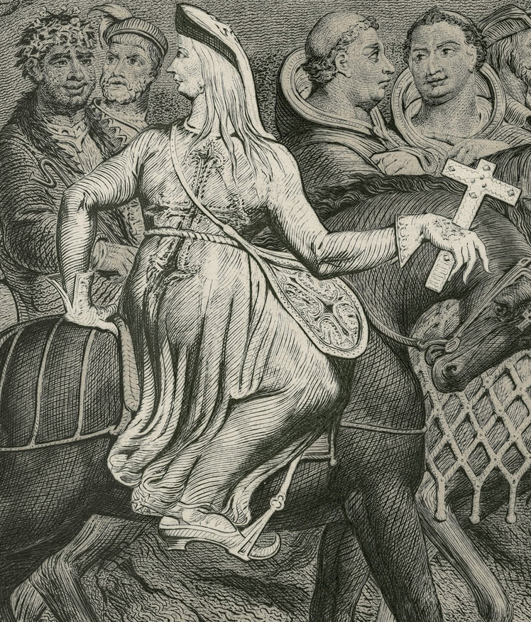 detail from The Canterbury Pilgrims showing the Pardoner. For more information see File:Blake Canterbury Pilgrims engraving.jpg. On the left are the Sompnour and the Manciple, on the right a monk and a friar.